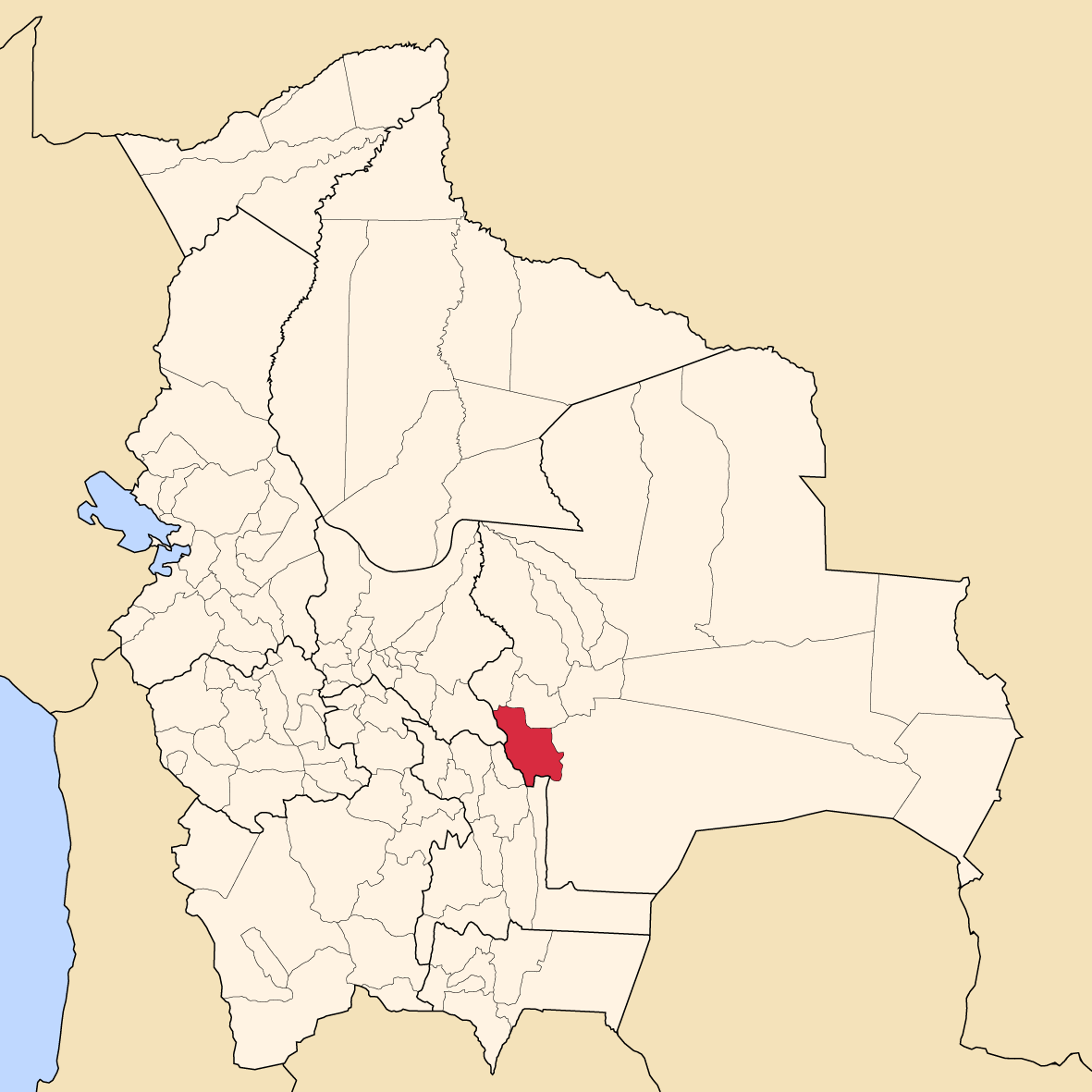 Map of Bolivia showing Vallegrande province, Santa Cruz